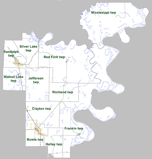 This is a map showing townships in Desha County, Arkansas. Modified from US census map (for 2010 census) for Desha County, Arkansas A larger version of this map is available.